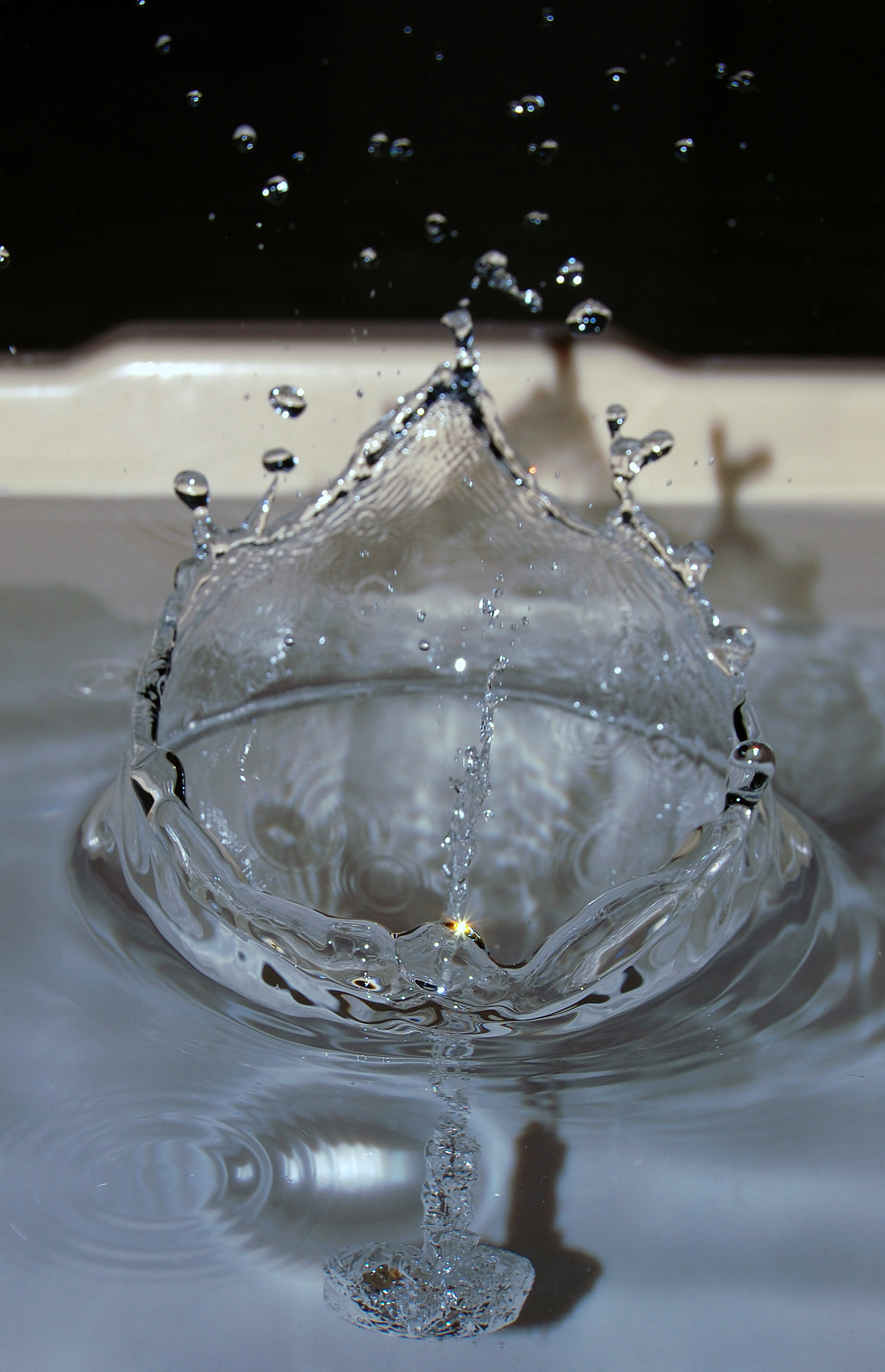 Splash (fluid mechanics)